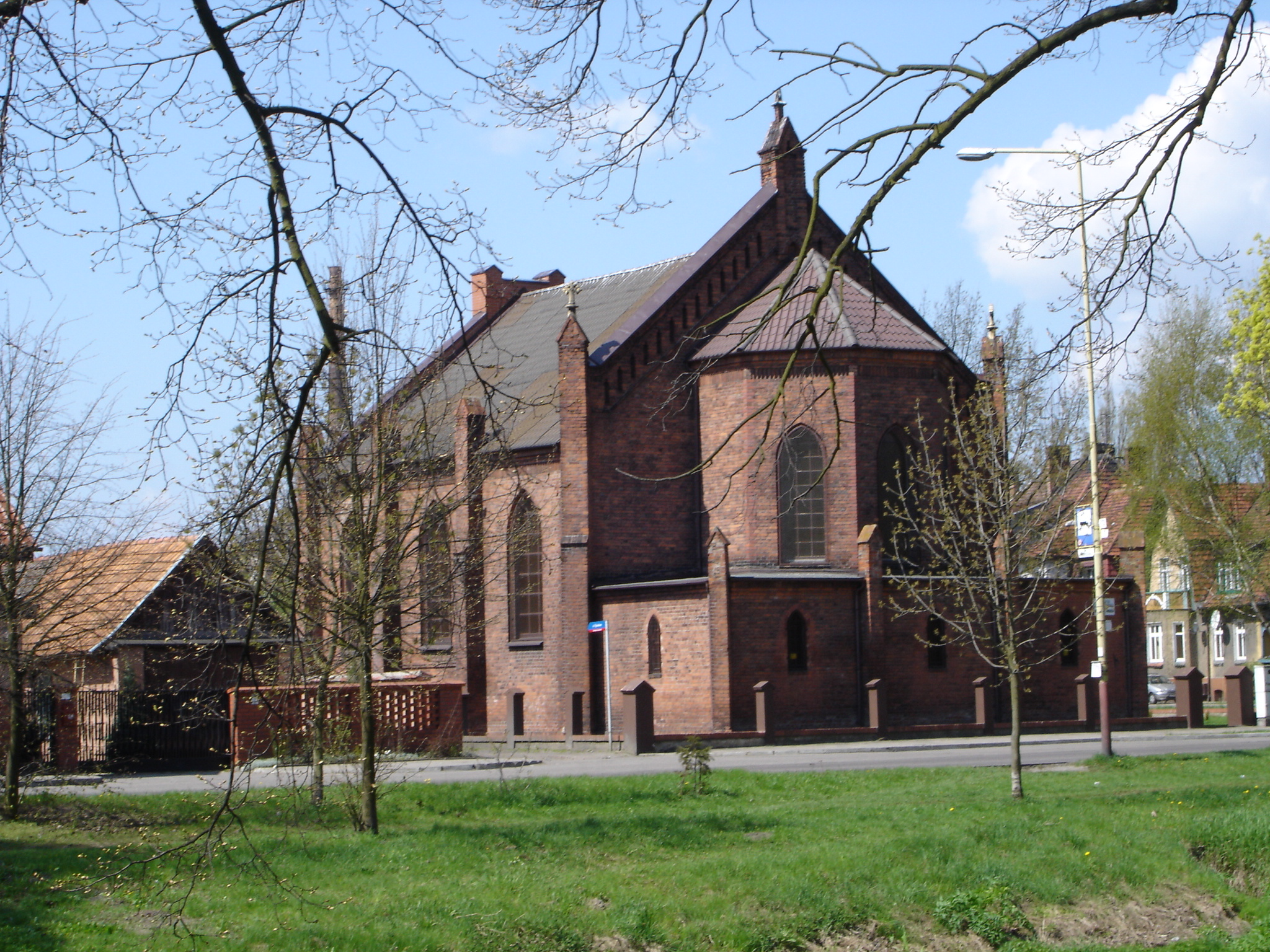 Transfiguration of Jesus Polish Catholic Church in Stargard Szczecinski.